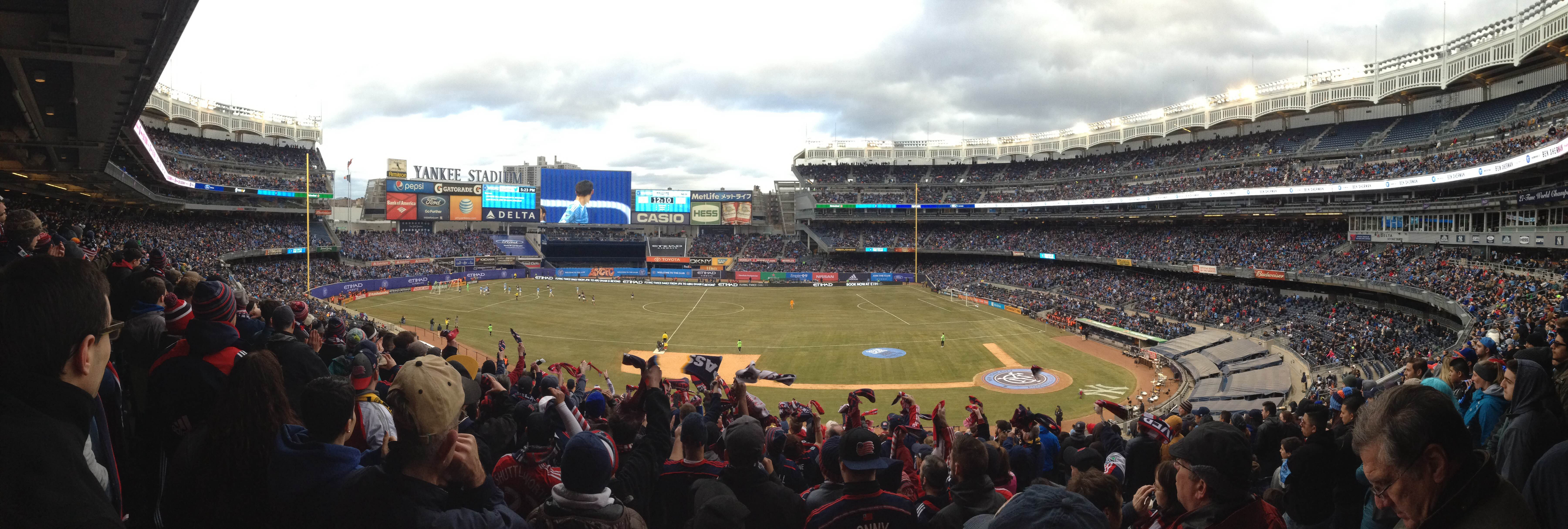 Yankee Stadium configured for NYCFC soccer game